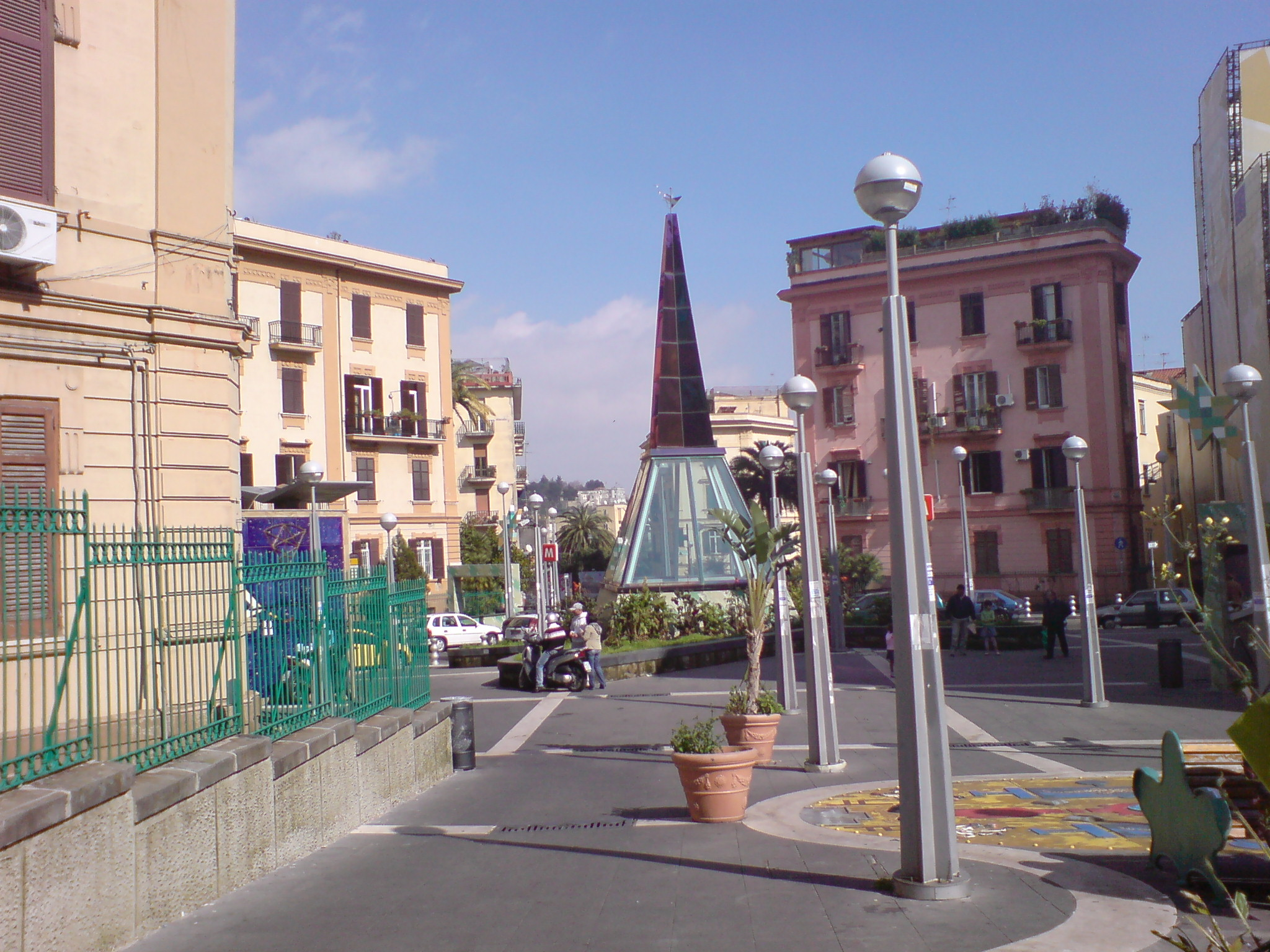 Piazza Scpione Ammirato in Materdei, Naples